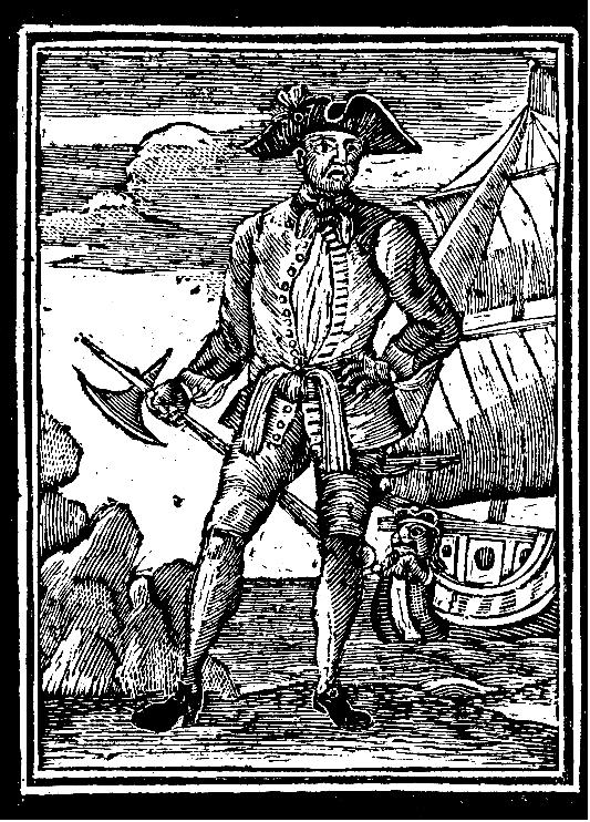 Edward England, Pirate in the Caribbean